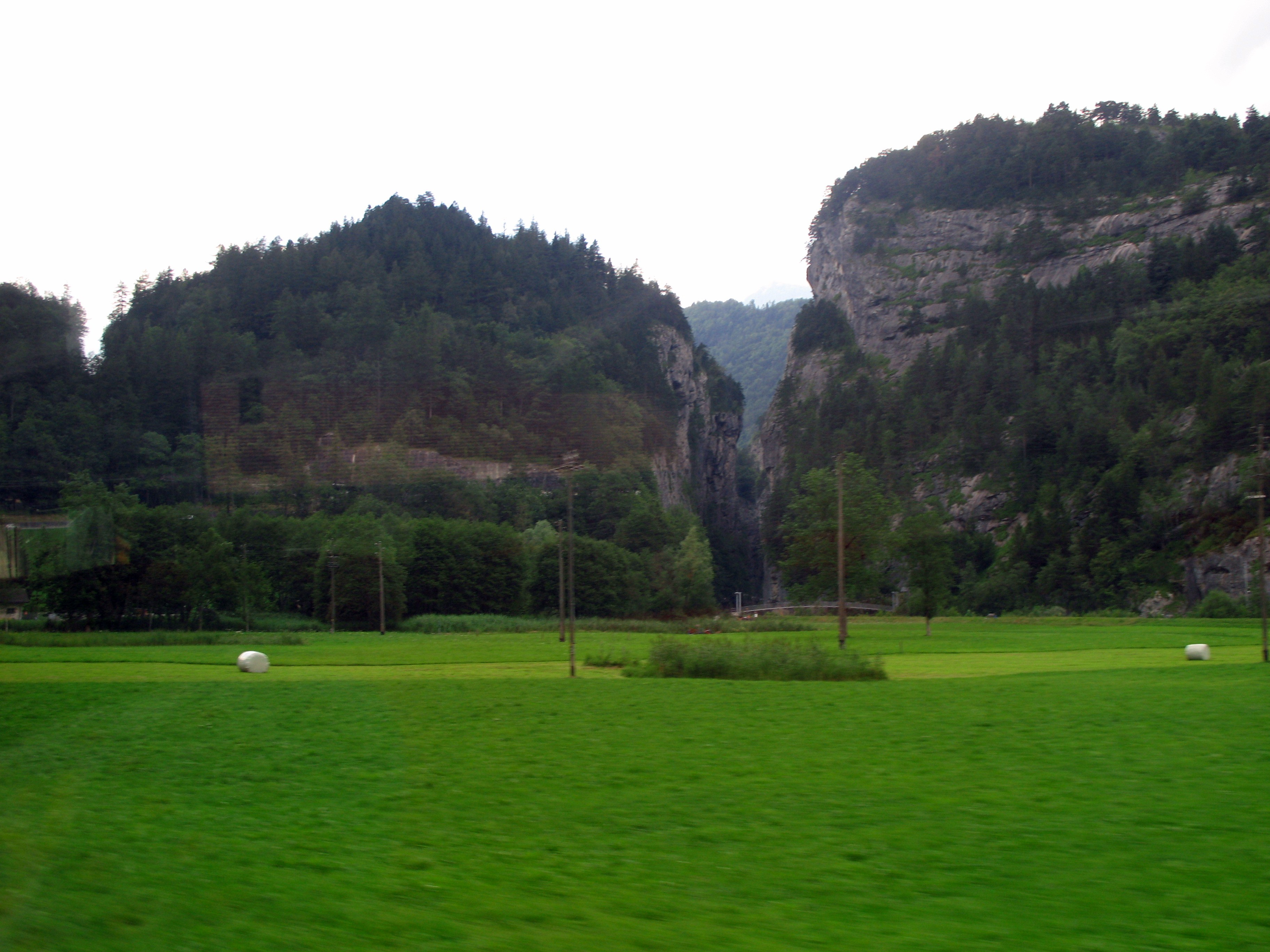 Aare Gorge, Innertkirchen, Switzerland